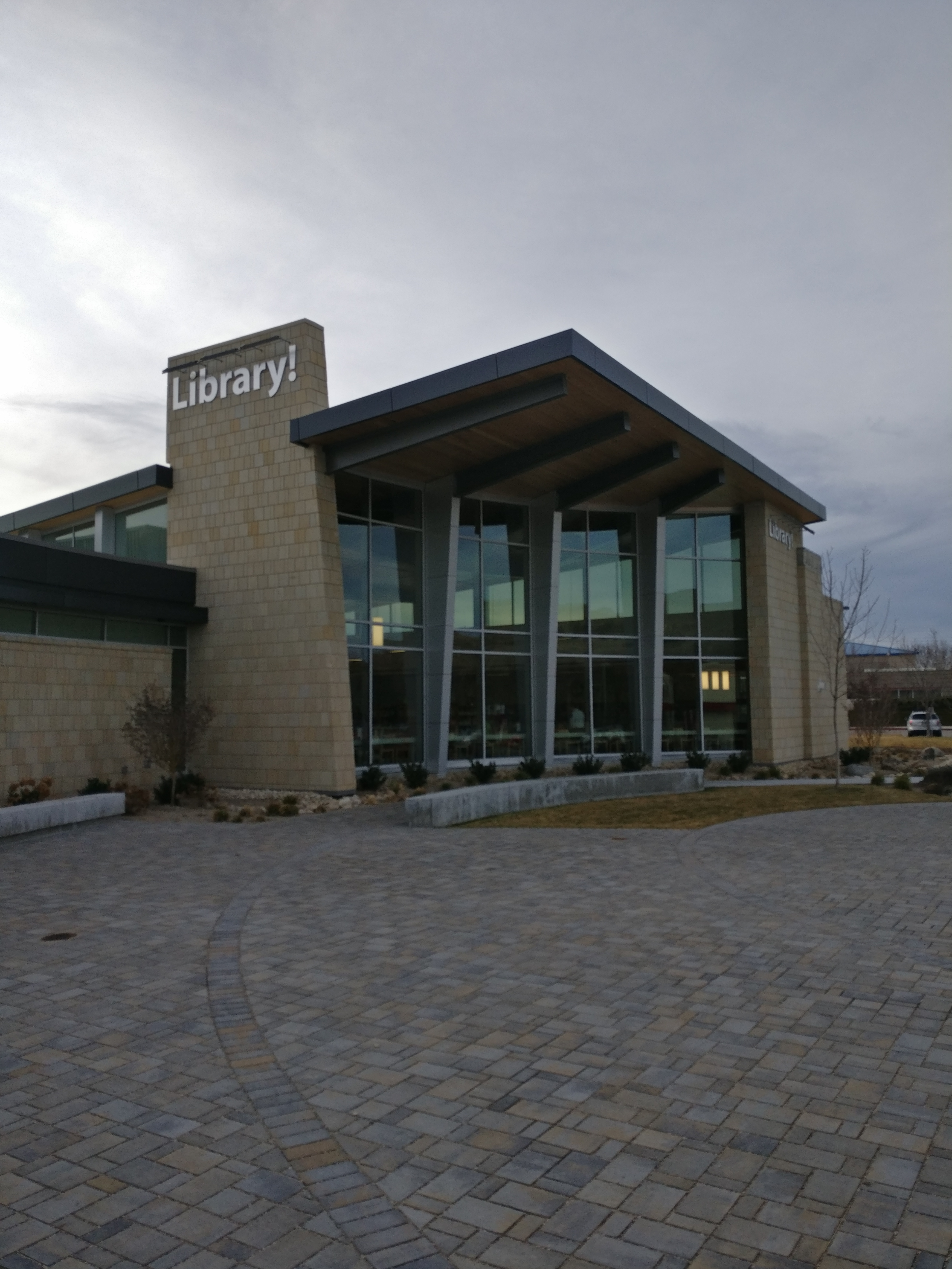 The Library! branch at Bown Crossing in SE Boise (the Boise Public Library stylizes itself as such).